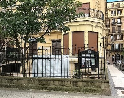 Club Vasco de Camping Elkartea. Donostia